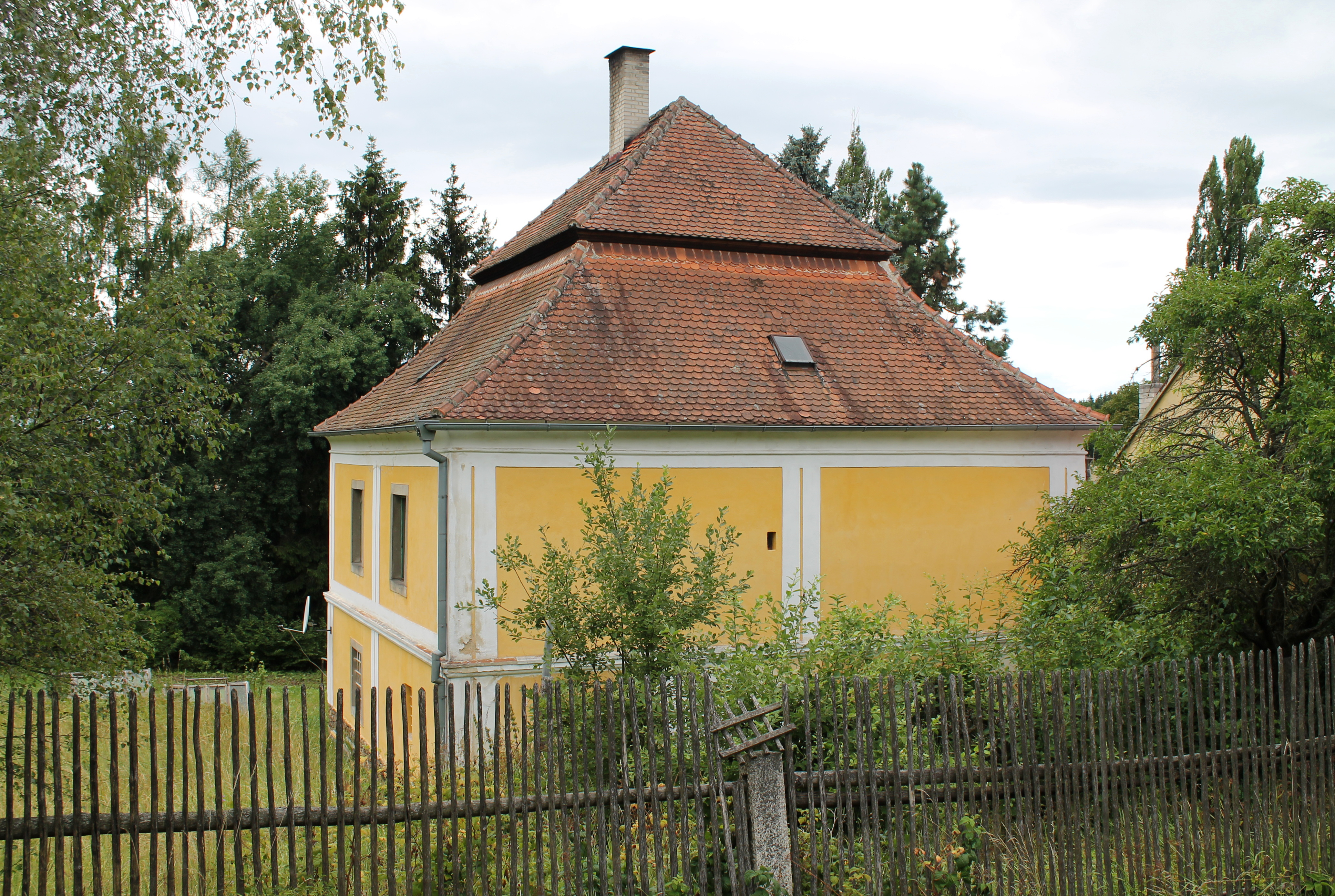 Forester's lodge, Rozsíčky, Dyjice, Jihlava District, Czech Republic